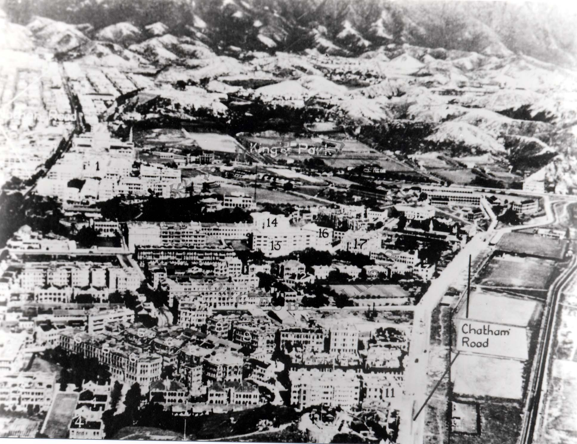 Panoramic view of north Tsim Sha Tsui, Chatham Road and King's Park